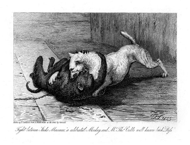 Title: "Fight between Jacko Maccacco a celebrated Monkey and Mr Tho. Cribbs well known bitch Puss" circa 1820 Artist: Thomas Landseer (1795 - January 20 1880)